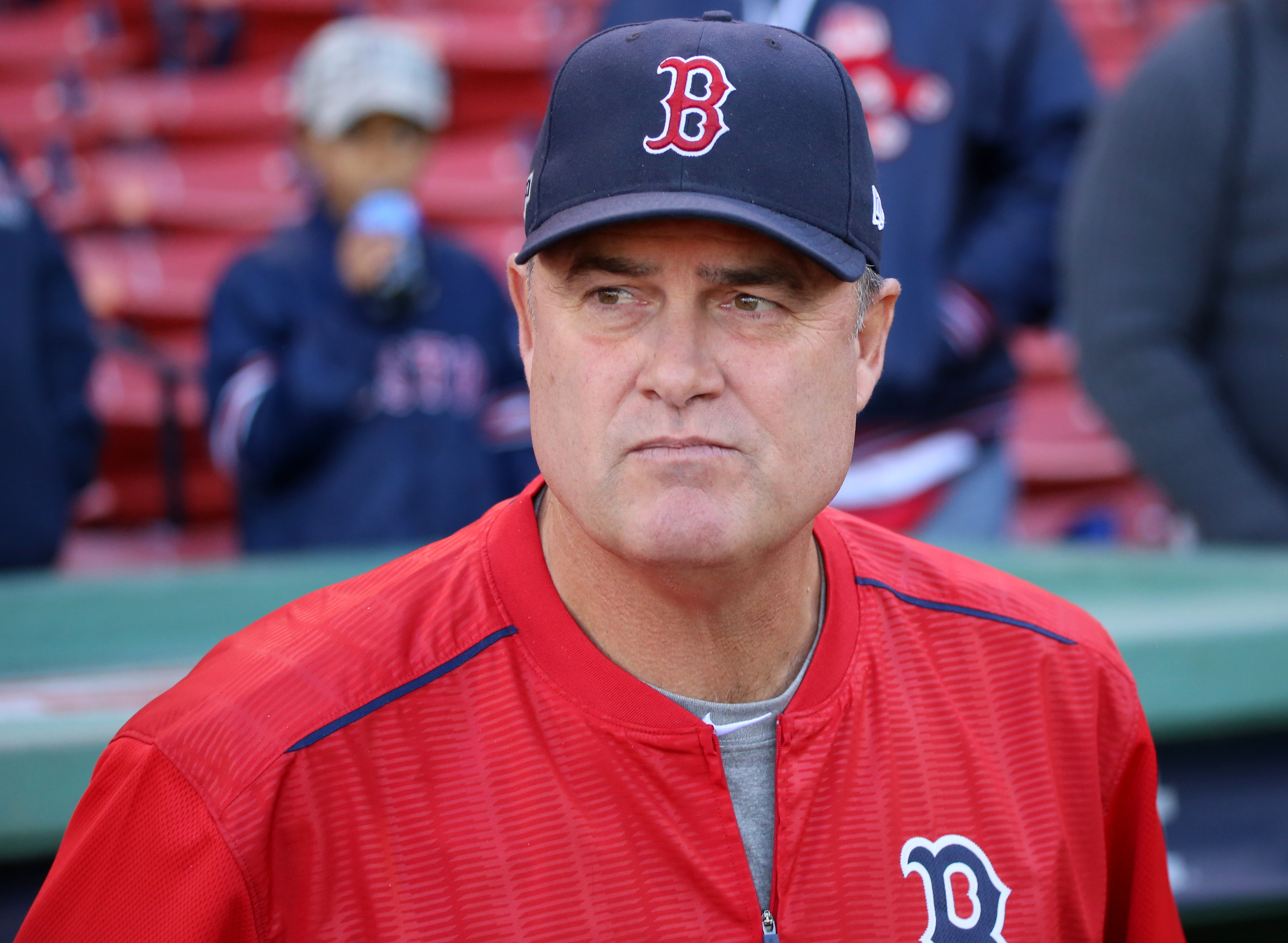 Red Sox manager John Farrell arrives for batting practice before ALDS Game 3 at Fenway Park.